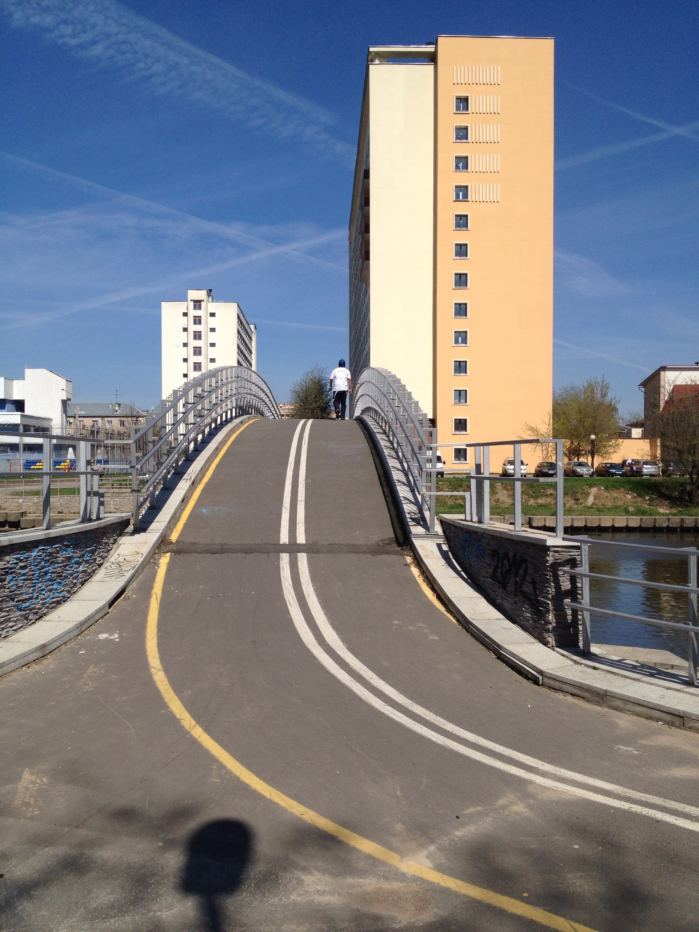 Cycling routes in Minsk